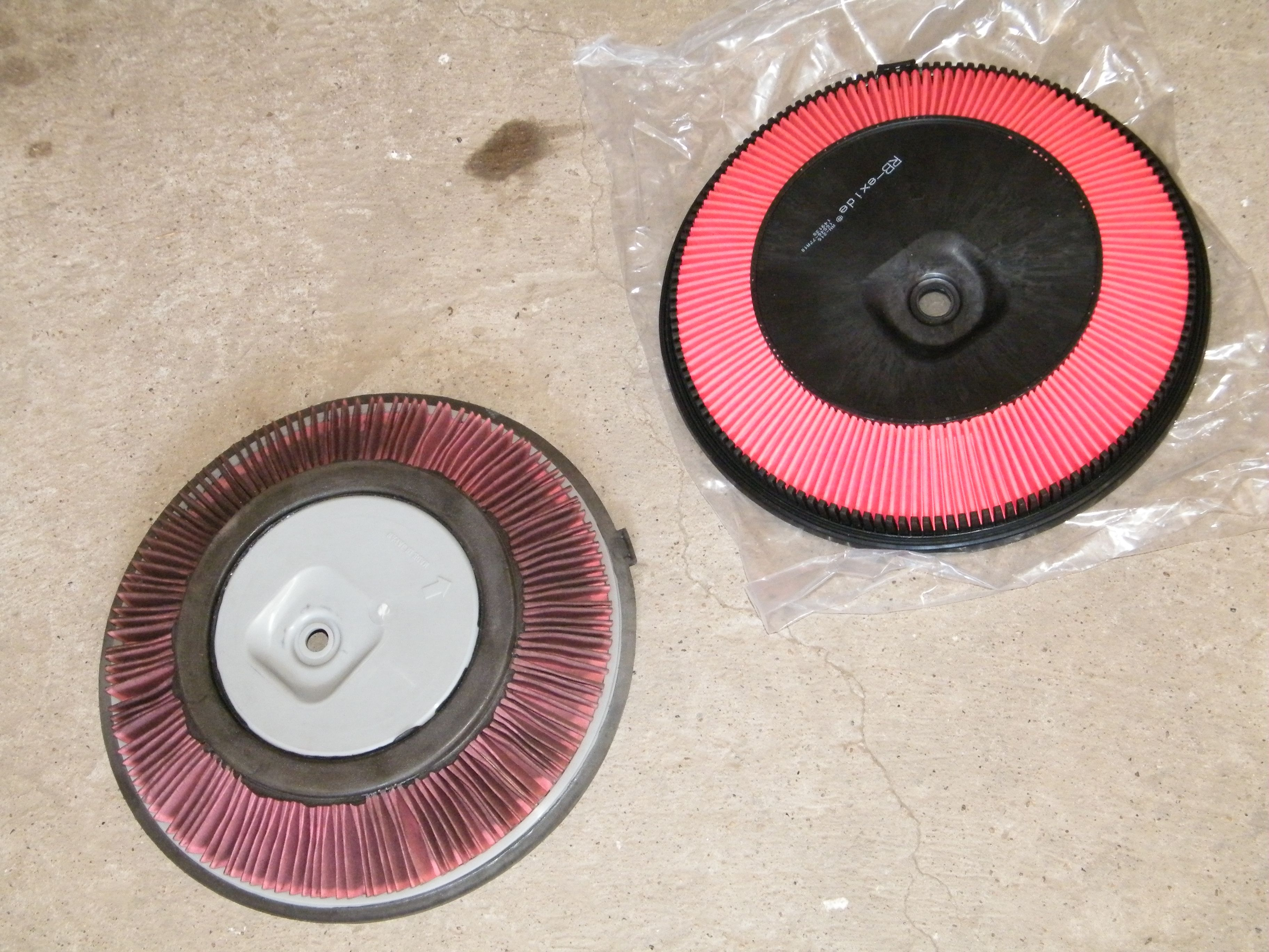 Automobile air filters